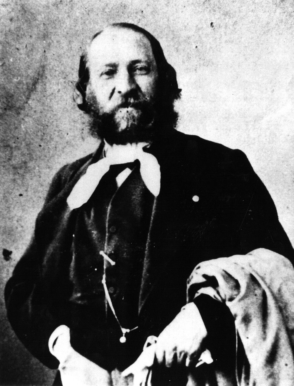 Photography of Sebastian de Iradier